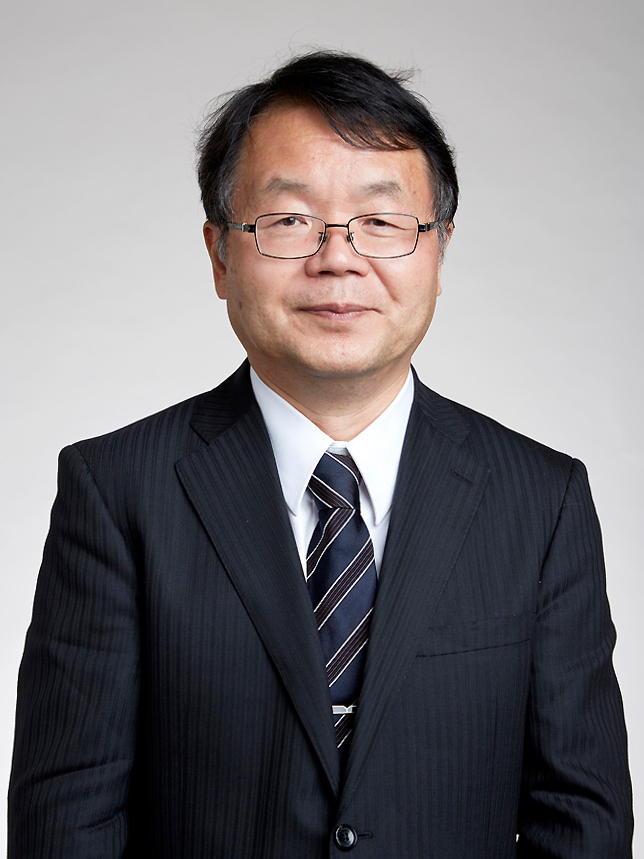 Hideo Hosono (細野秀雄 Hosono Hideo, born September 7, 1953) is a Japanese material scientist most known for the discovery of iron-based superconductors. Attribution: The Royal Society